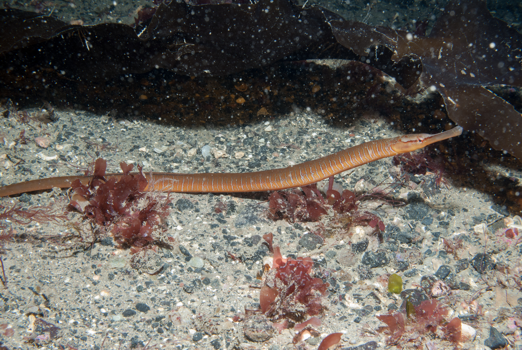 Snake Pipefish (Entelurus aequoreus)